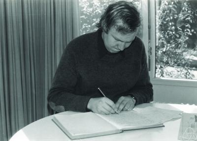 Thomas Beth